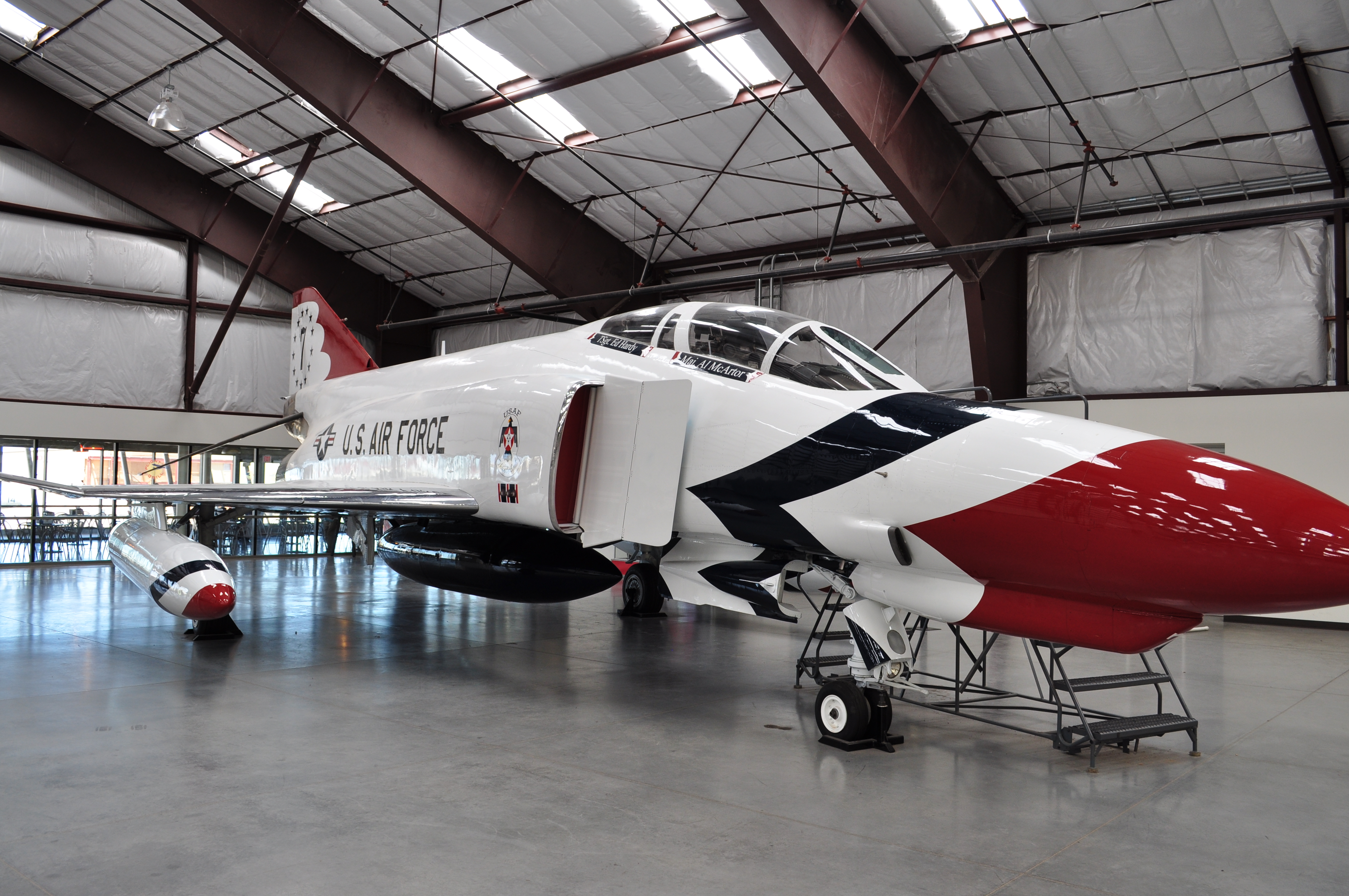 USAF Thunderbirds, Nellis Air Force Base, Nevada, 1973 USAF PIMA